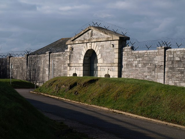 Entrance to Bull Point Barracks. A closer look at the gateway shown in 244875. The limestone structure is dated 1857 on the keystone over the round arch.